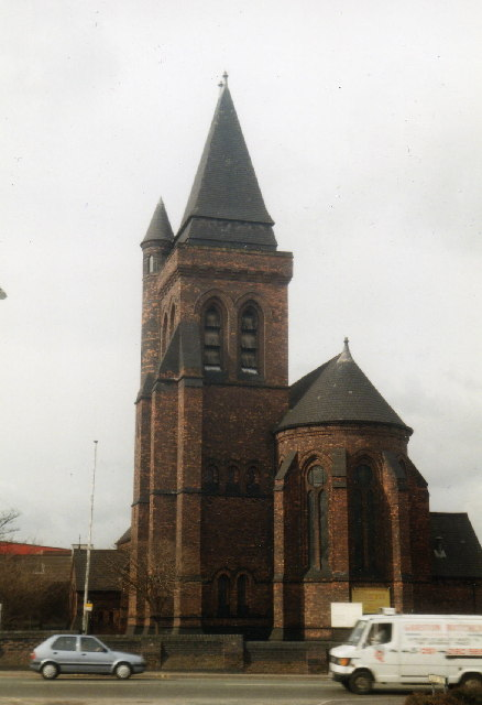 East end of the former St Anne's parish church, Warrington, Cheshire